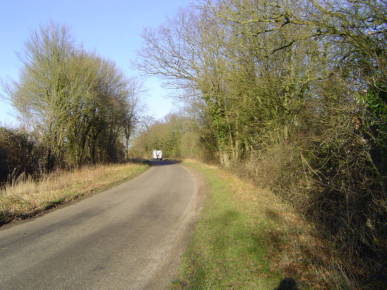 Donkey Lane in Lawshall Suffolk - a minor road between Hanningfield Green and Stanningfield.